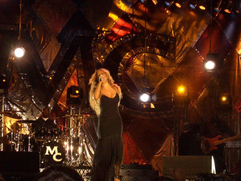 Mariah Carey at a concert in 2005.